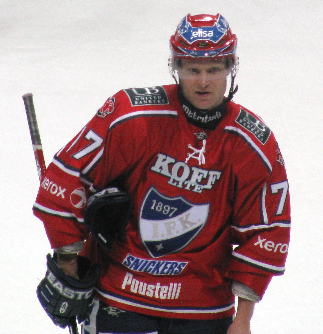 Martti Järventie (HIFK) in a match against Ässät.